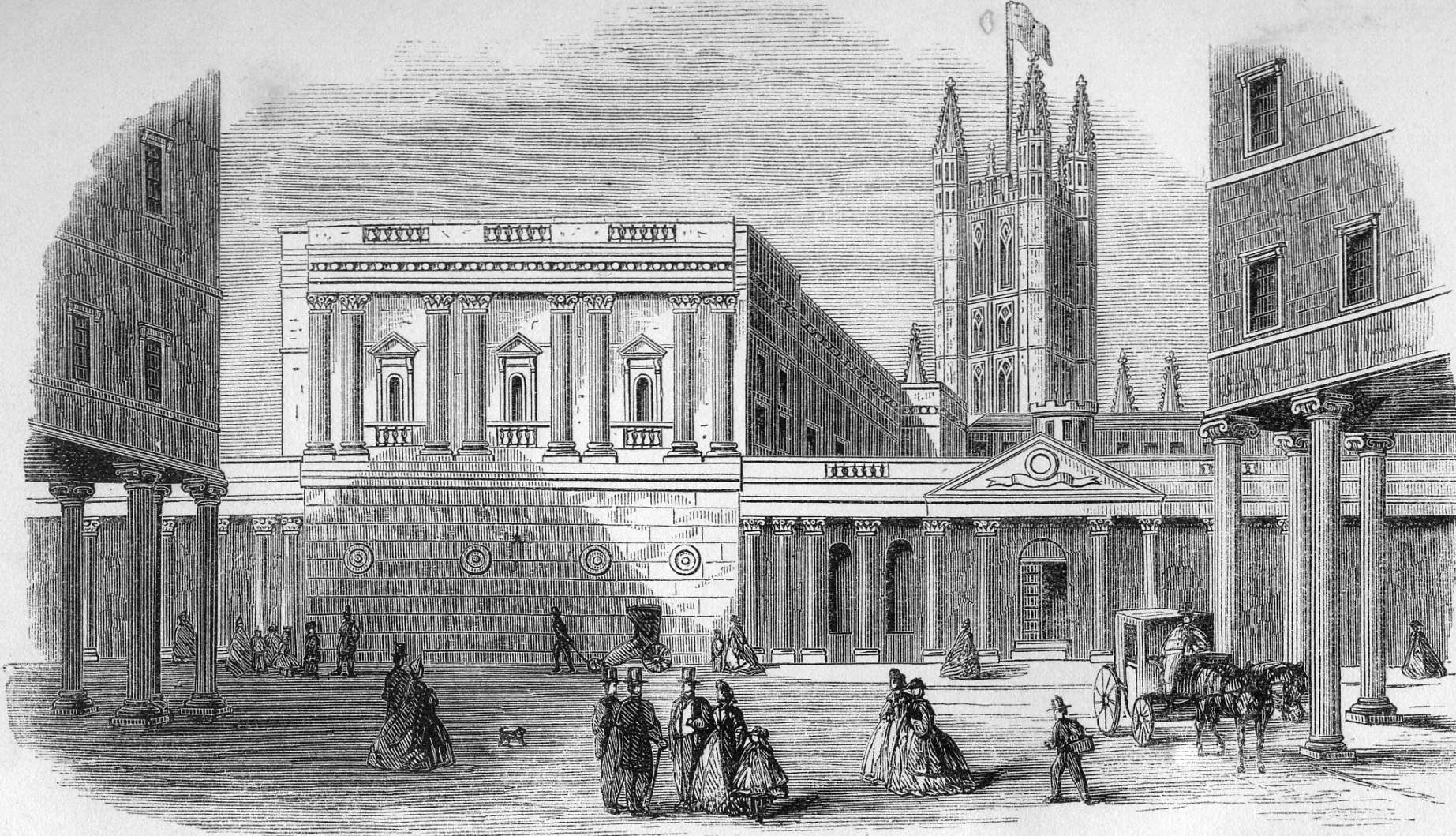 Engraving of the Pump Room and exterior of the baths in Bath